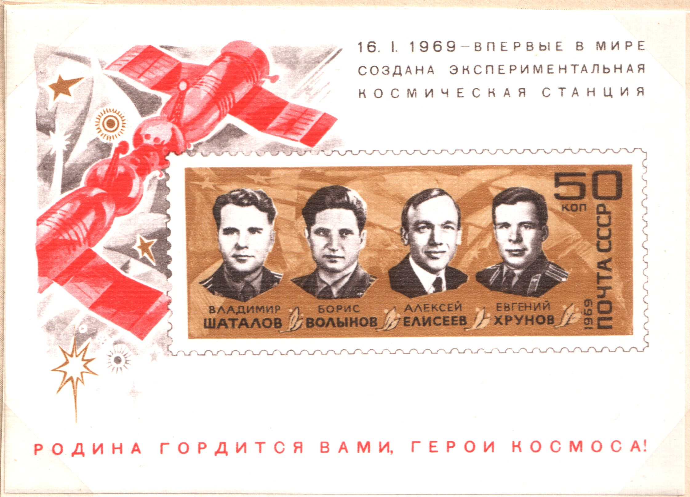 Soyuz 4 and Soyuz 5 space missions, souvenir sheet of the Soviet Union, 1969, 50 kopecks